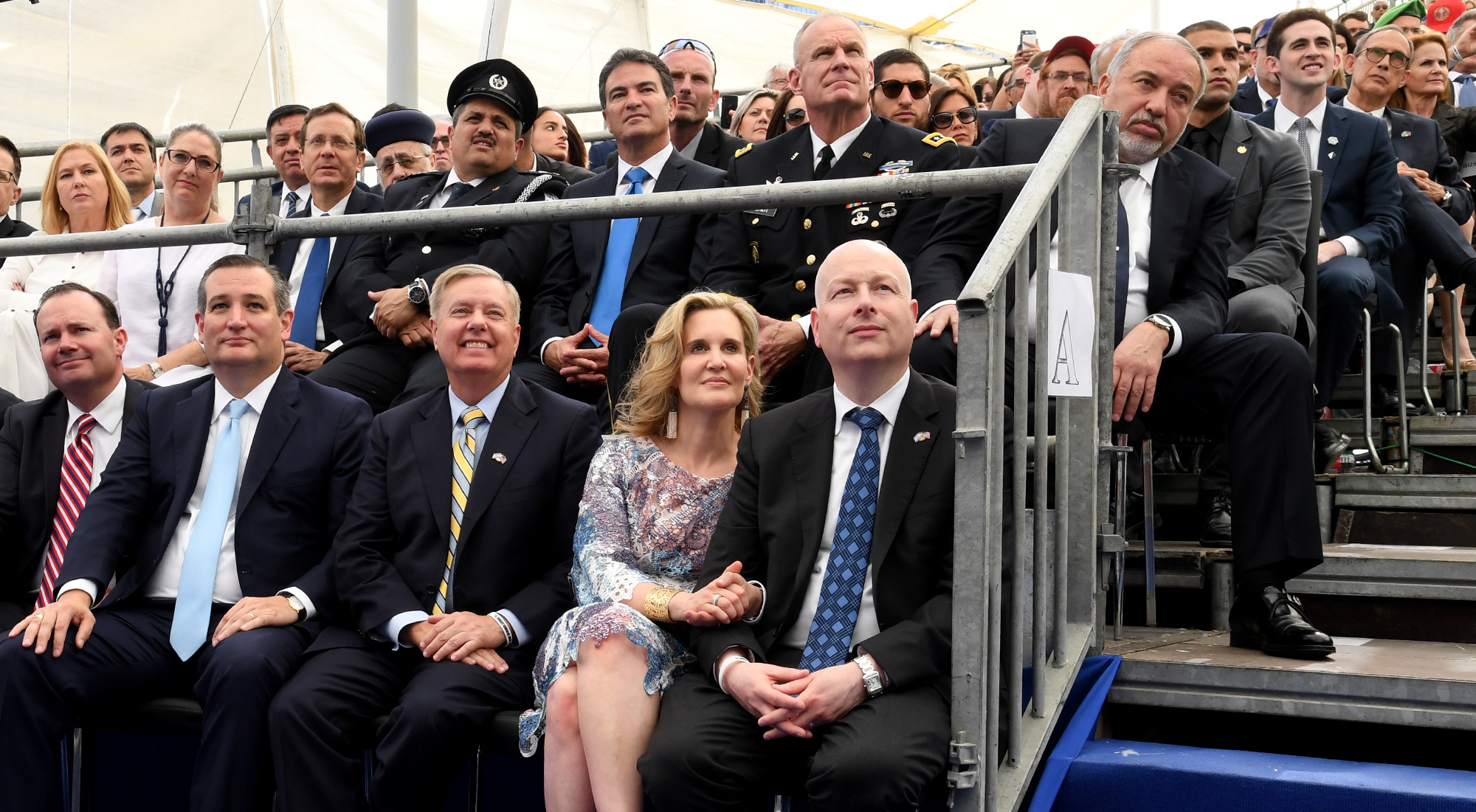 Embassy Dedication Ceremony